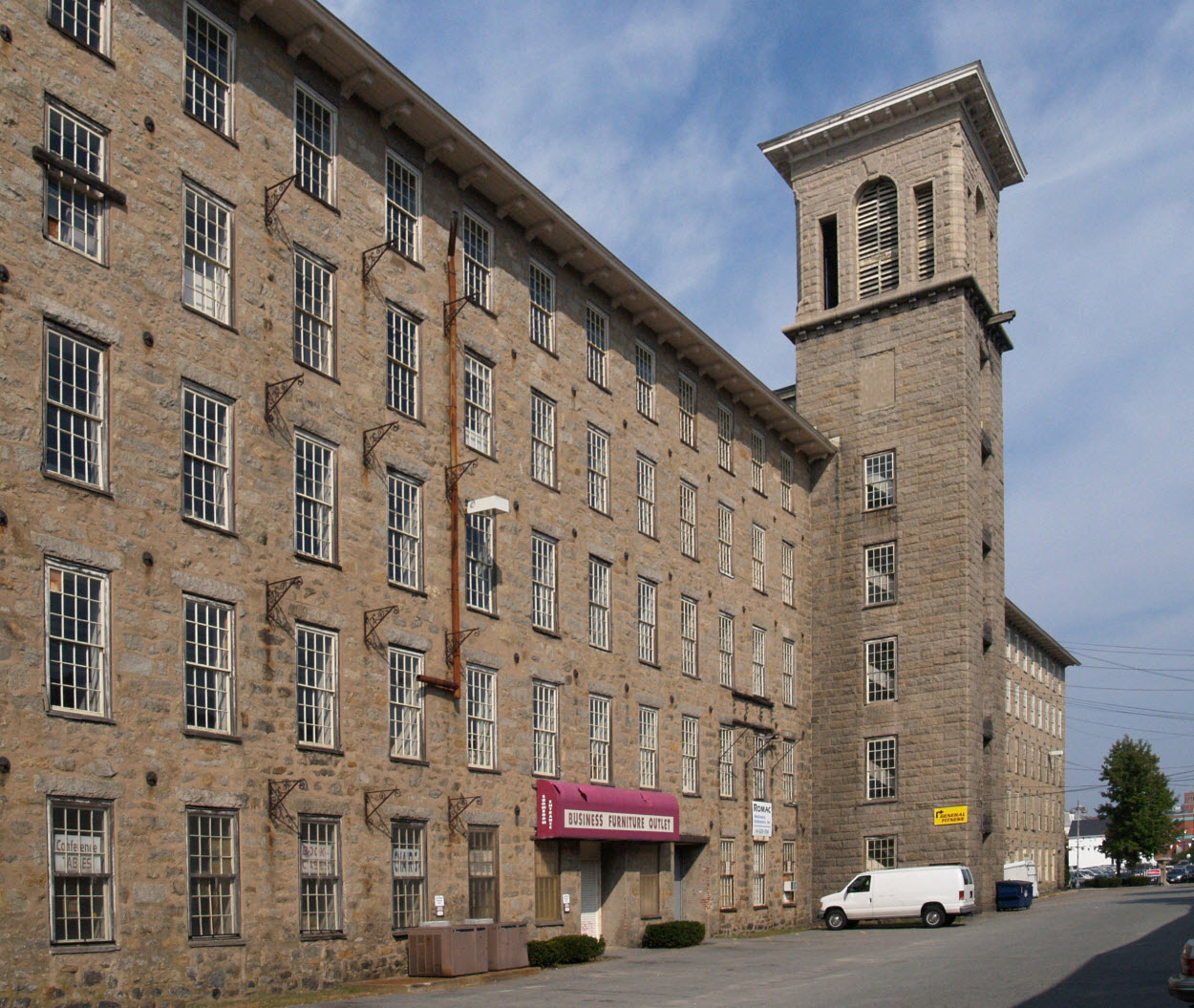 Durfee Mill #2, part of Durfee Mills Complex, Fall River, Massachusetts